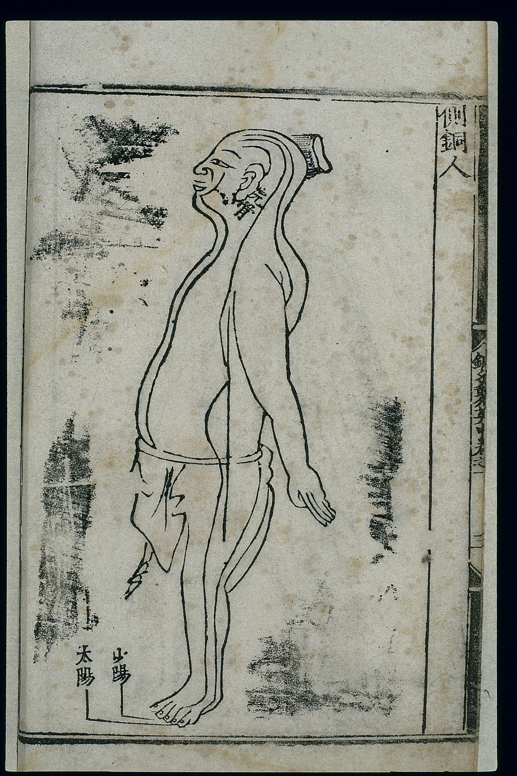 From an edition published in 1537 (16th year of the Jiajing reign period of the Ming dynasty). This is a side view of the acupuncture figurine (the 'Bronze Man'). Two channels are shown extending over the body: the gall bladder channel of footshaoyangand the bladder channel of foottaiyang. Wellcome Images Keywords: Medicine, Chinese Traditional; Meridians; Ming period (1368-1644); Moxibustion; Channels; Bronze figure; Acupuncture; Bronze man